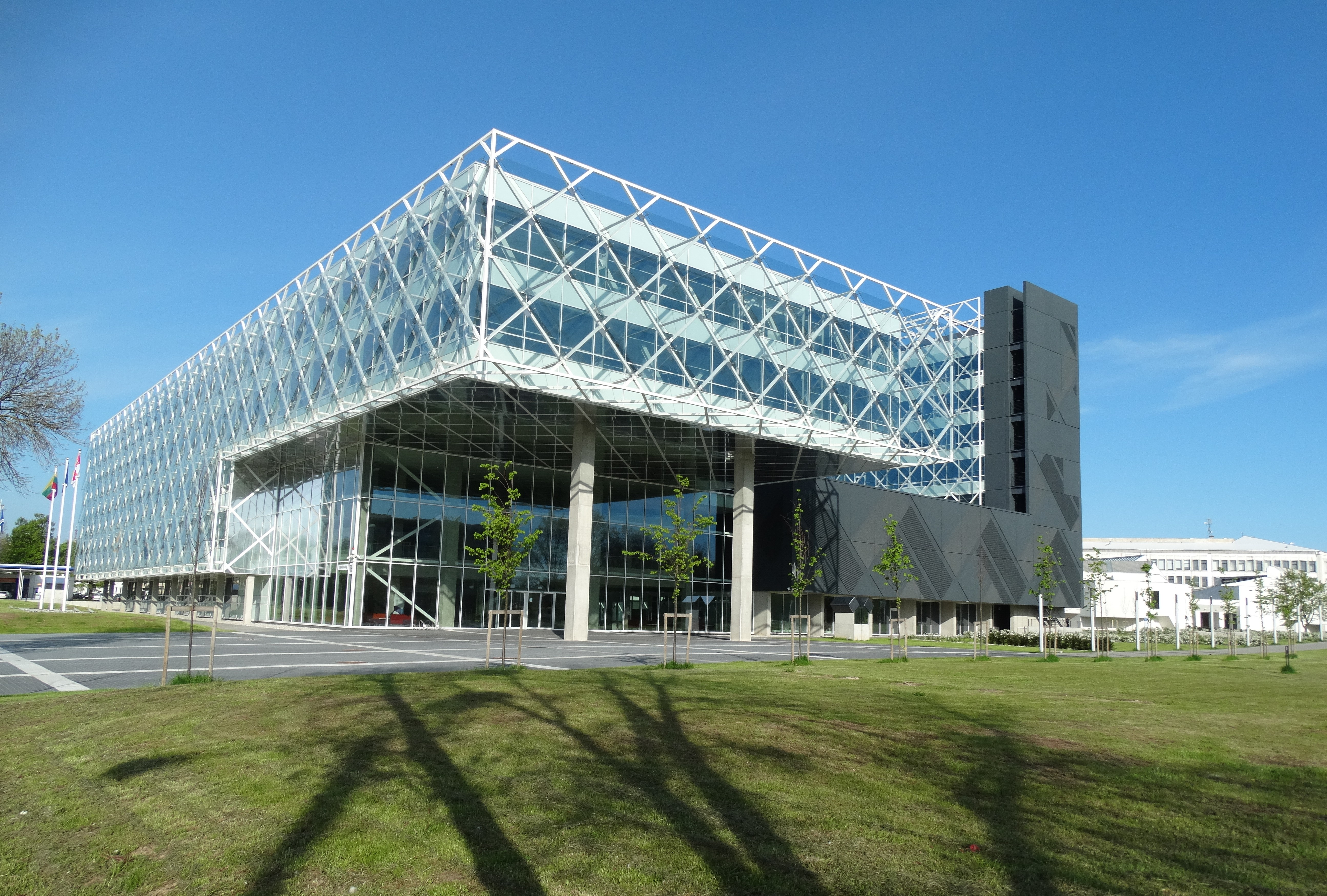 University of Technology, Science and technology center, Kaunas, Lithuania